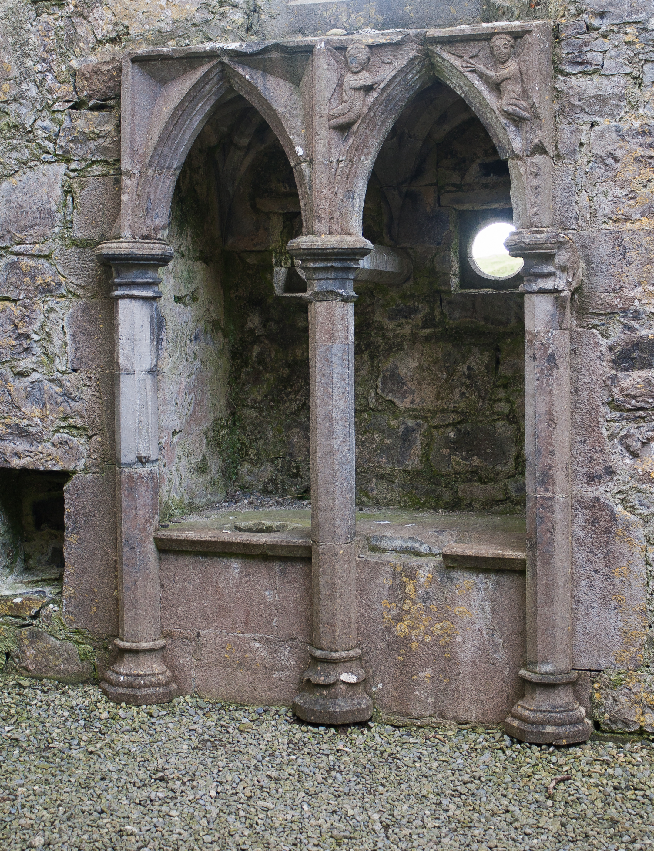 Double piscina in the south wall of the choir.